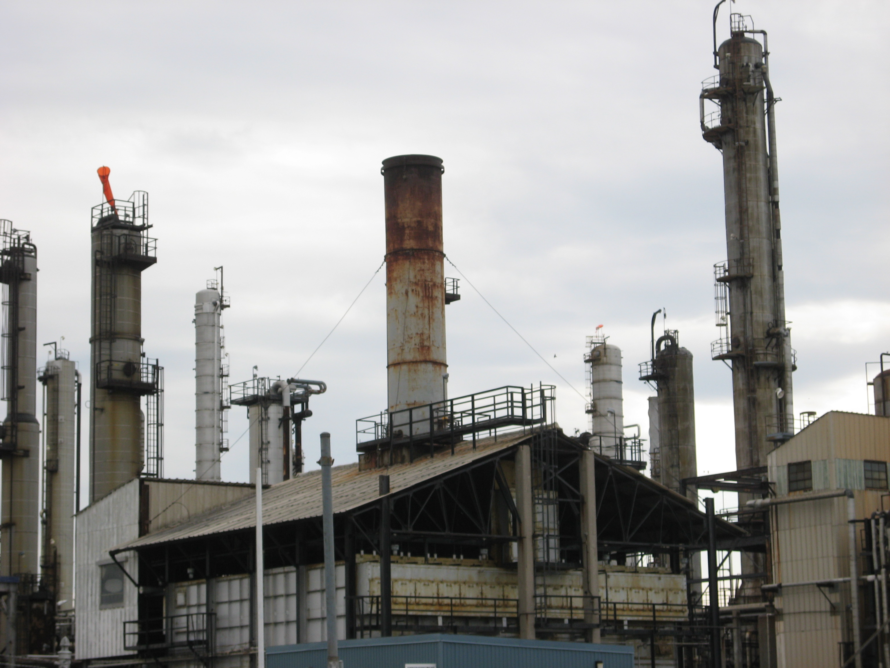 Picture of the former Gulf oil refinery in Montreal.